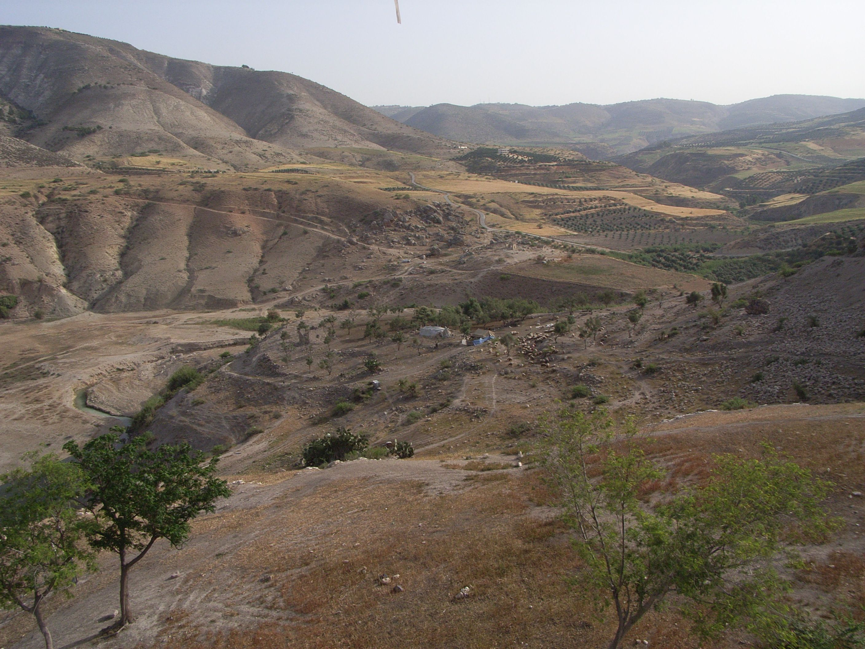 2008 Wadi el Arab